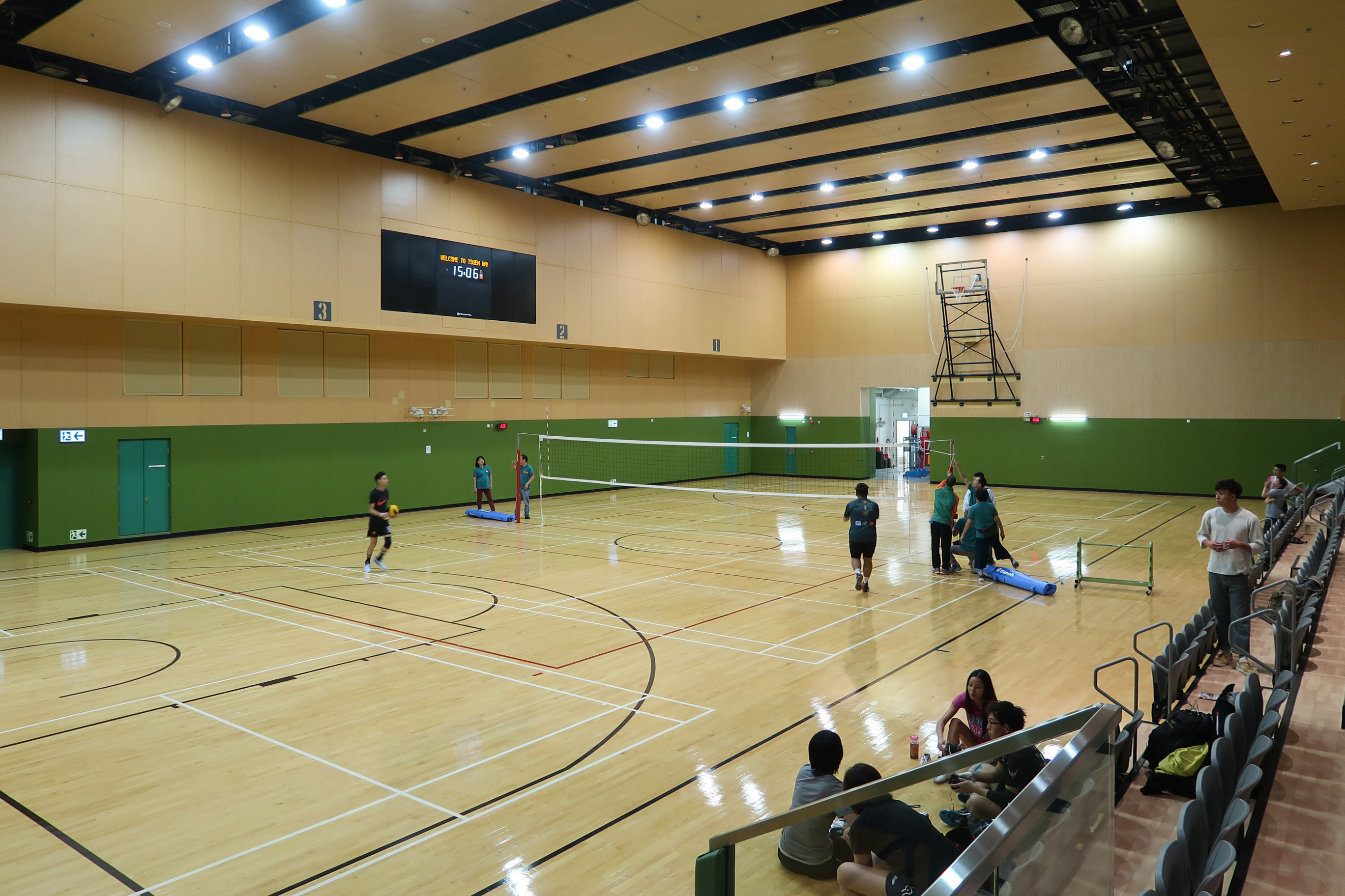 Tsuen Wan Sports Centre GF Secondary Hall